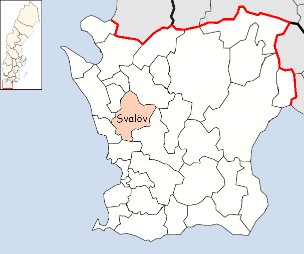 Svalöv Municipality in Scania, Sweden Designed by me. Mere outlines are a PD source from